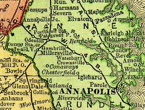 Cropped 1895 map of Maryland in 1895 (Color Landform Atlas/Ray Sterner)